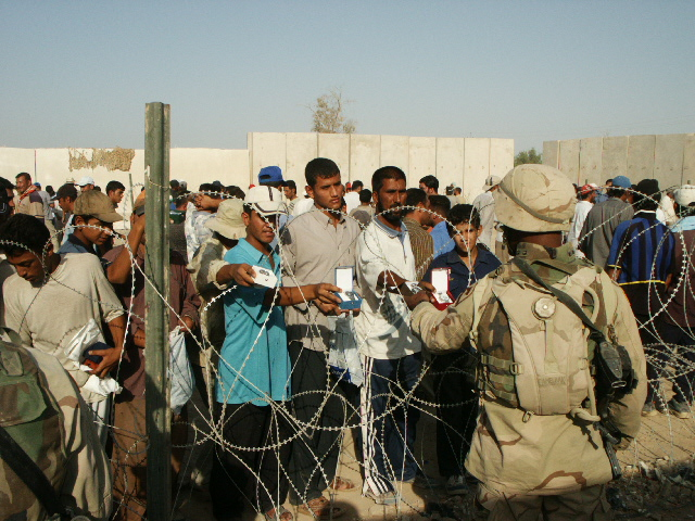 The Black Market, fine watch section, Baghdad outside the gates of Camp Taji, Oct 2004